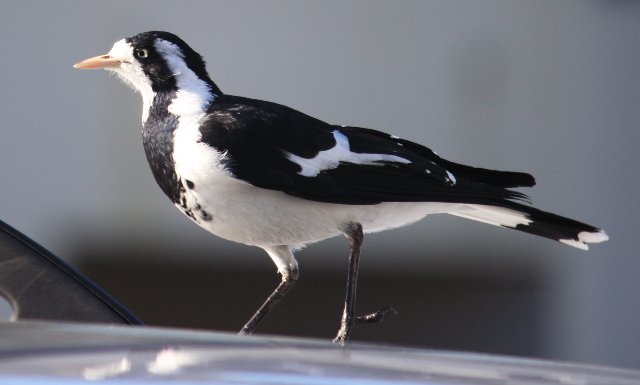 Spectacular bird - it just landed on the car next to me.